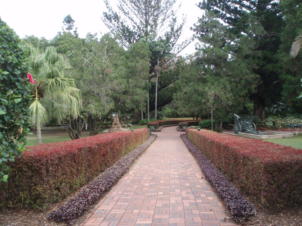 Rockhampton Botanic Gardens (2010)